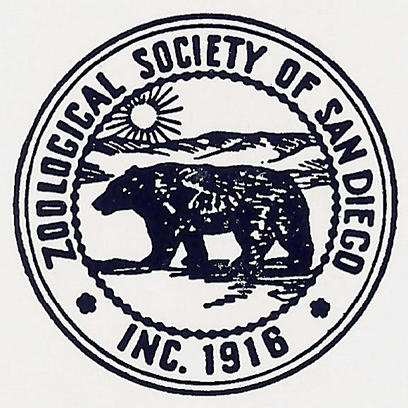 This is the first official seal of the Zoological Society of San Diego (now known as San Diego Zoo Global), used from February 17, 1917 to January 1955 ( The seal depicts a grizzly bear, and was replaced with a new seal in response to the grizzly becoming extinct in California. This specific image was scanned from a book published in 1953, however the seal itself is believed to be in the public domain as it was first published prior to January 1, 1923, appearing on various letters and other documents published by the Zoological Society of San Diego beginning in 1917.